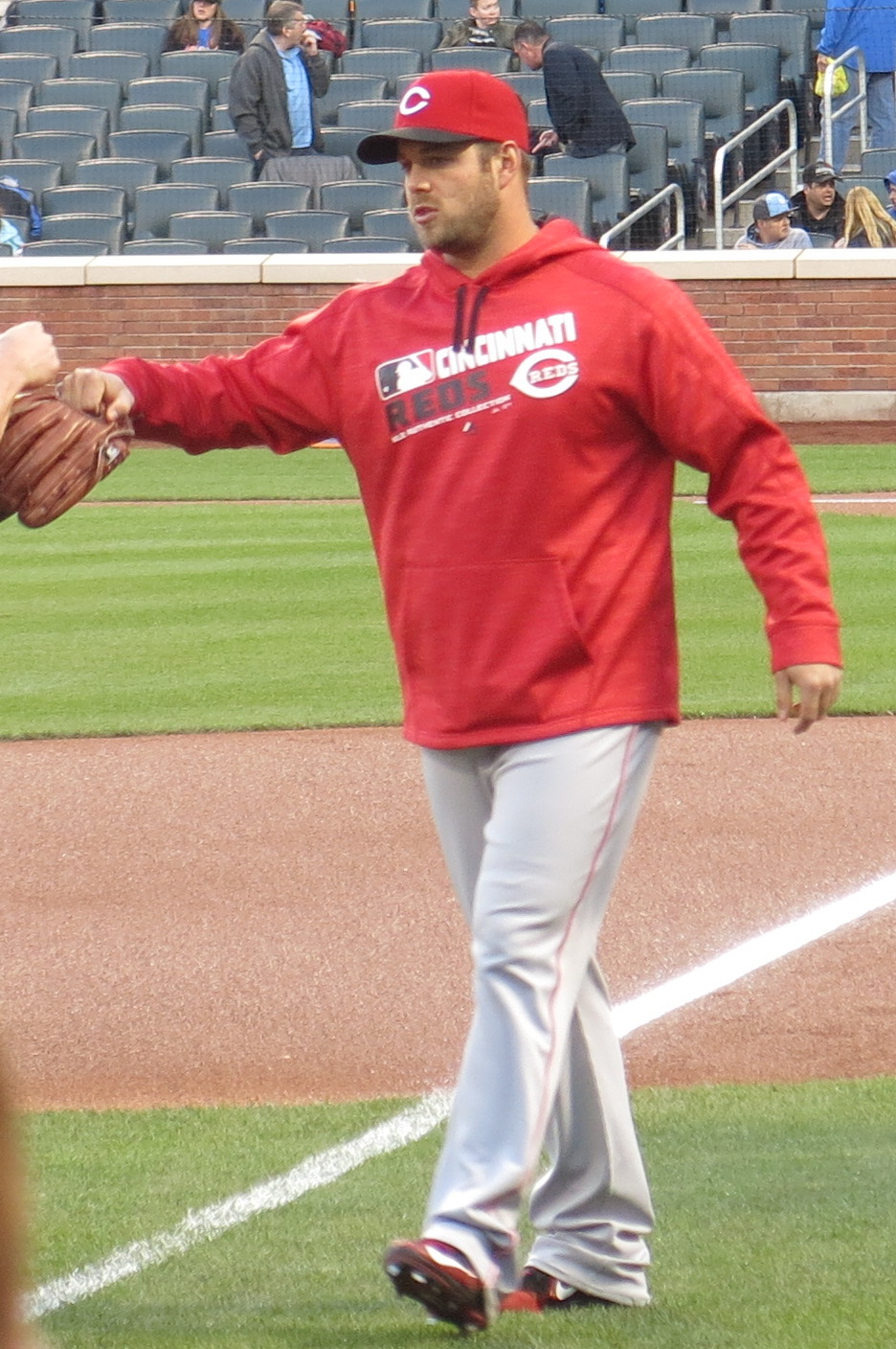 J. J. Hoover with the Cincinnati Reds, April 27, 2016.